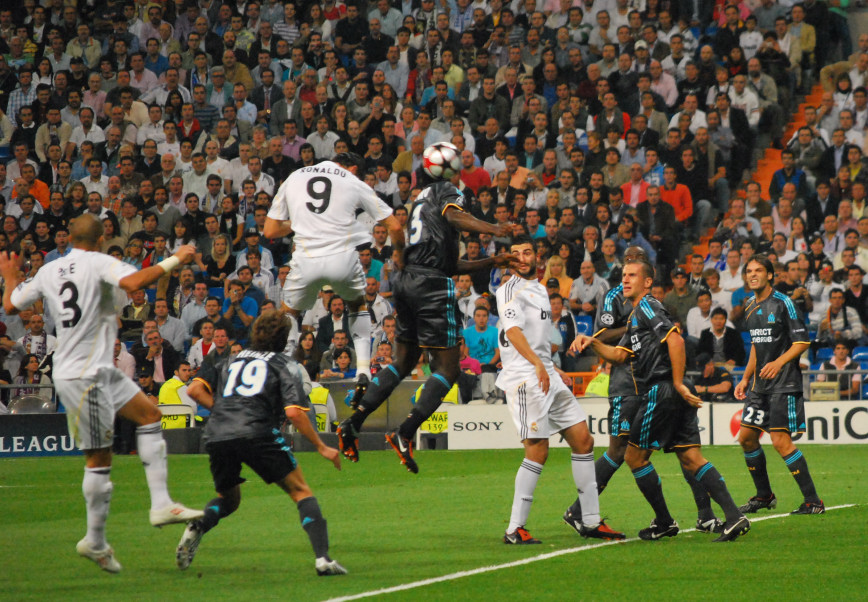 Champions League Real Madrid 3 - O.Marsella 0 30/09/09